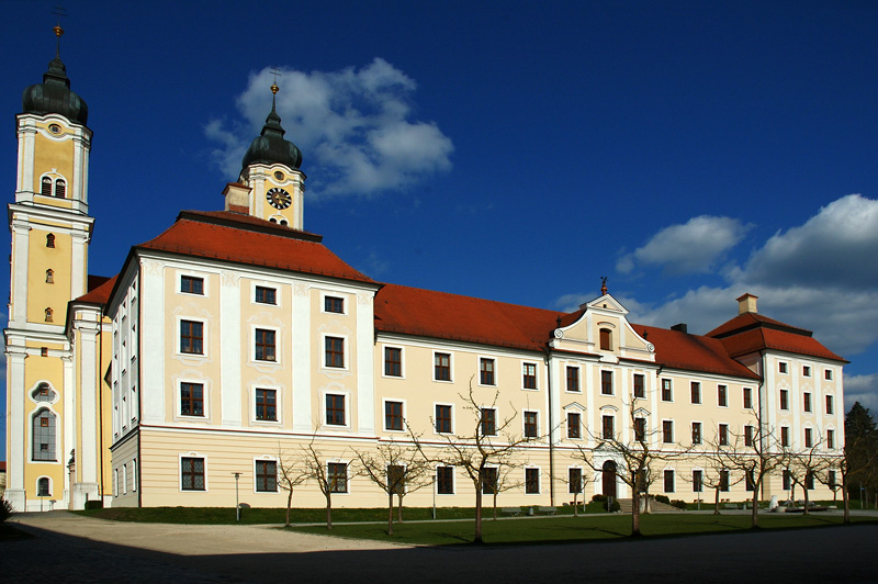 Roggenburg abbey, Germany